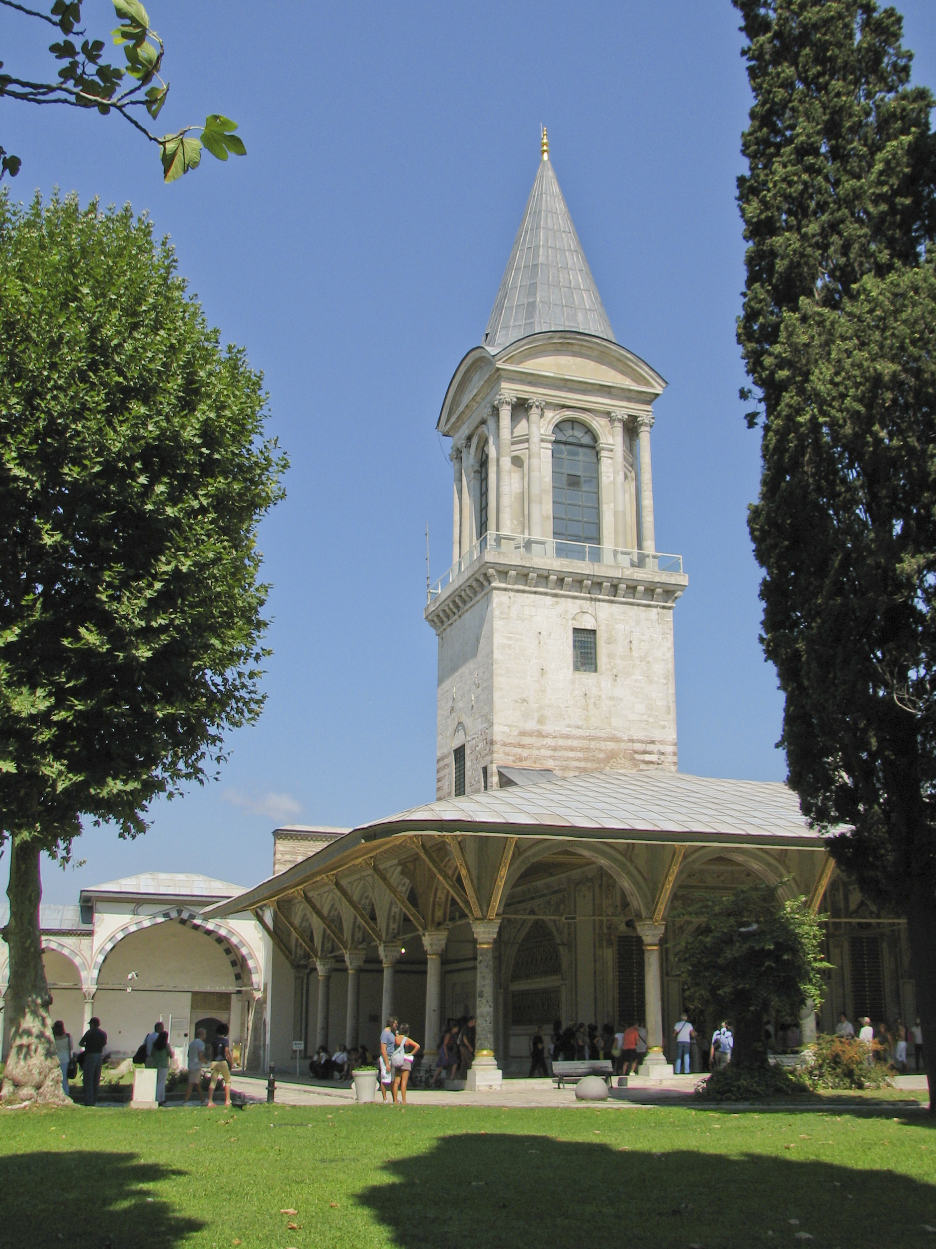 Topkapi Palace - Istanbul - Turkey.